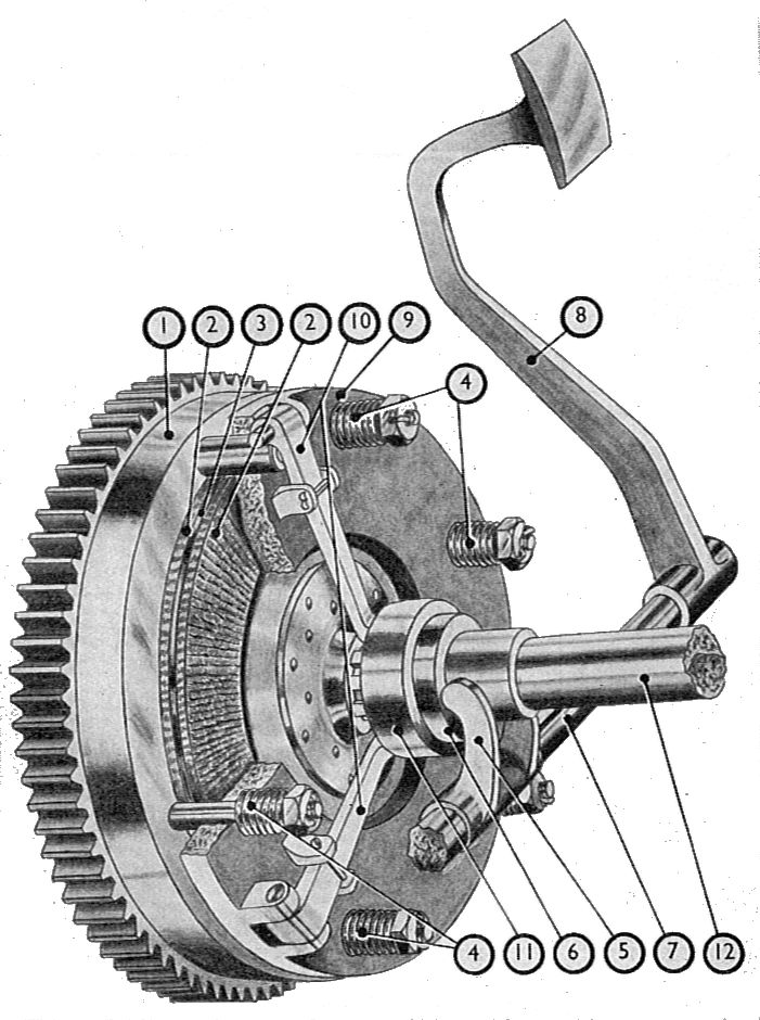 Multi-spring plate clutch (Manual of Driving and Maintenance).jpg